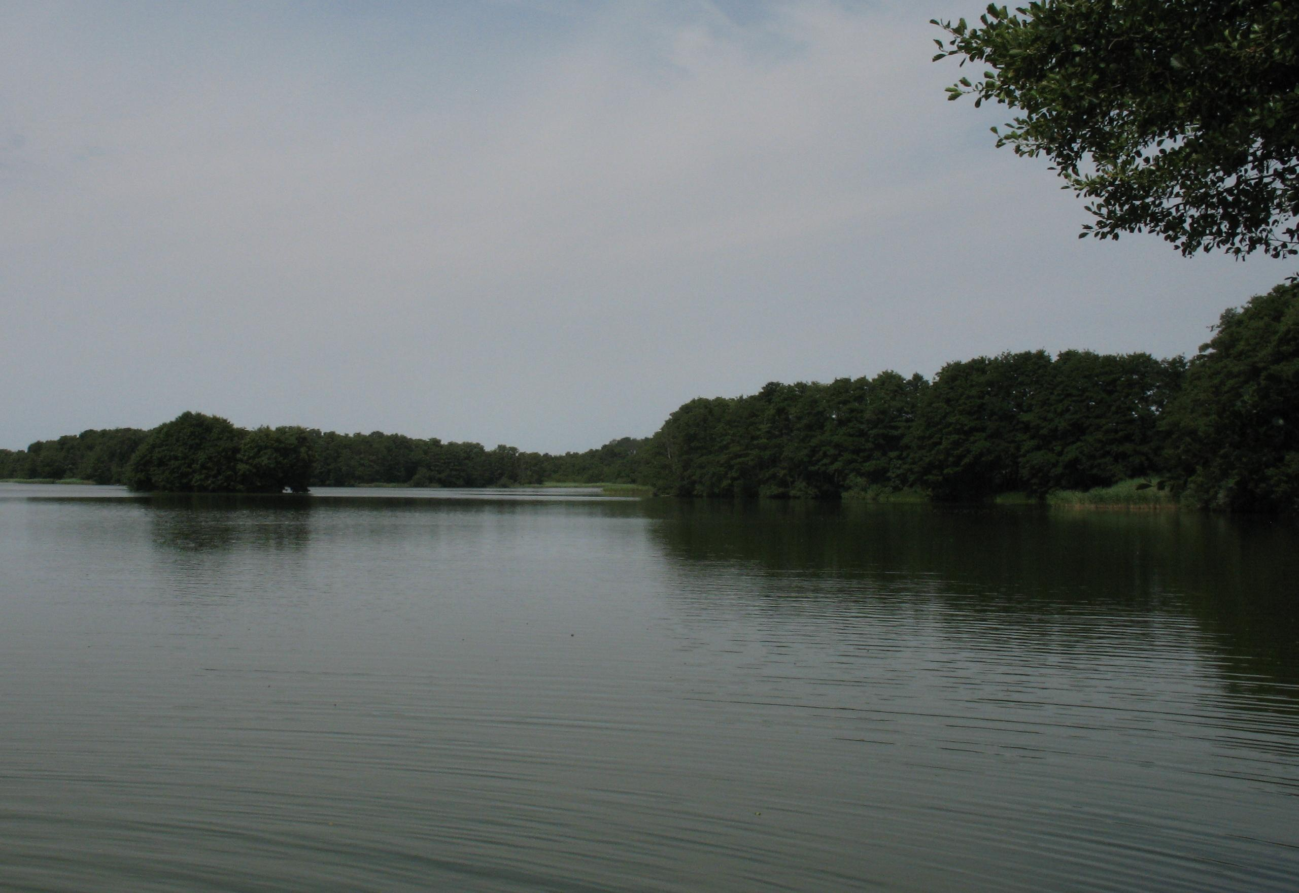 Lake Dümmer See in Dümmer in Mecklenburg-Western Pomerania, Germany